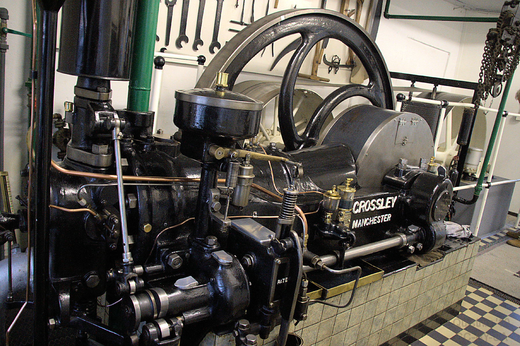 De Lier: Oude Liermolen, Crossley stationary Diesel engine (1929)